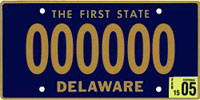 Delaware license plate from personal collection